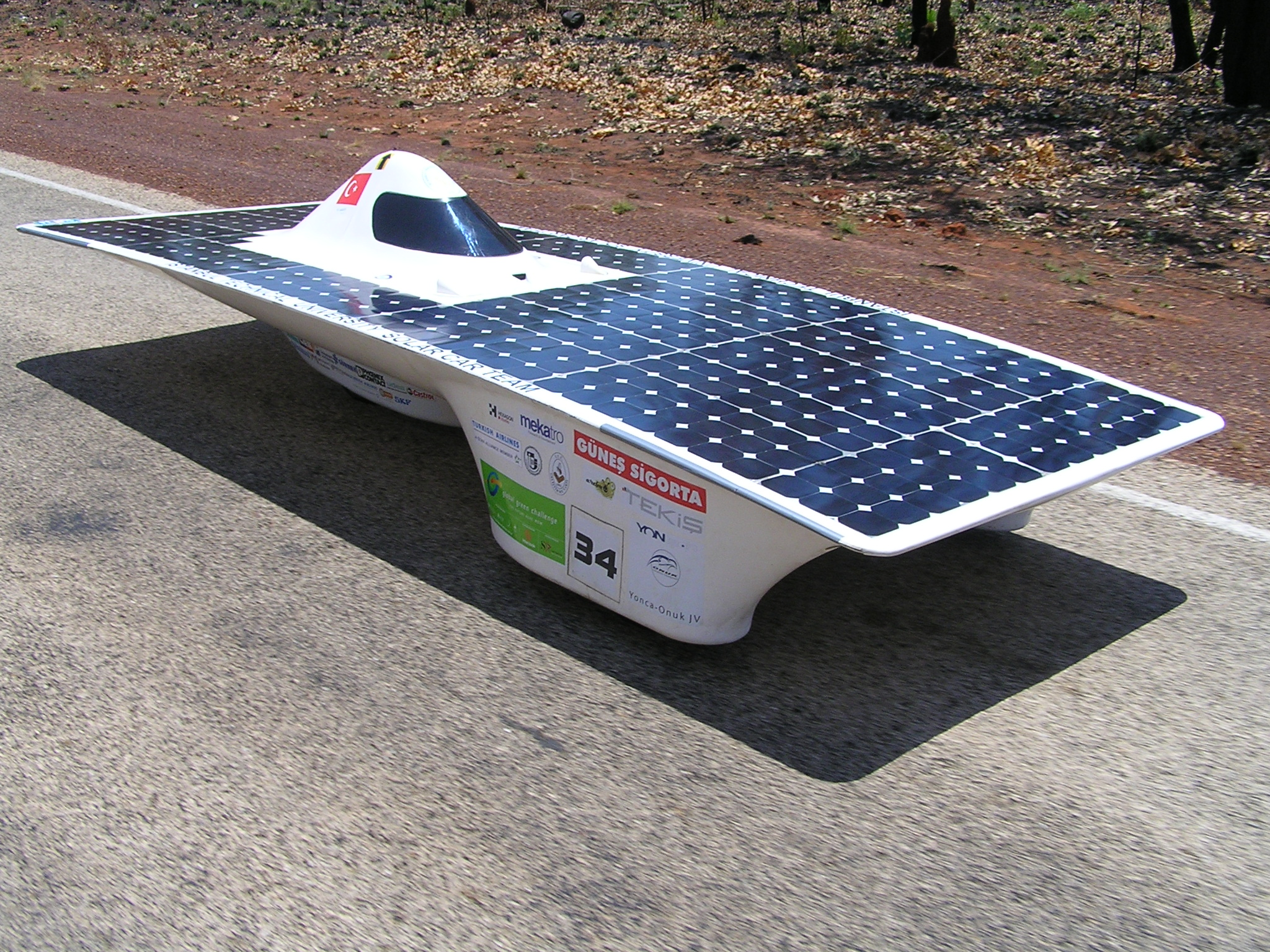 ARIba IV